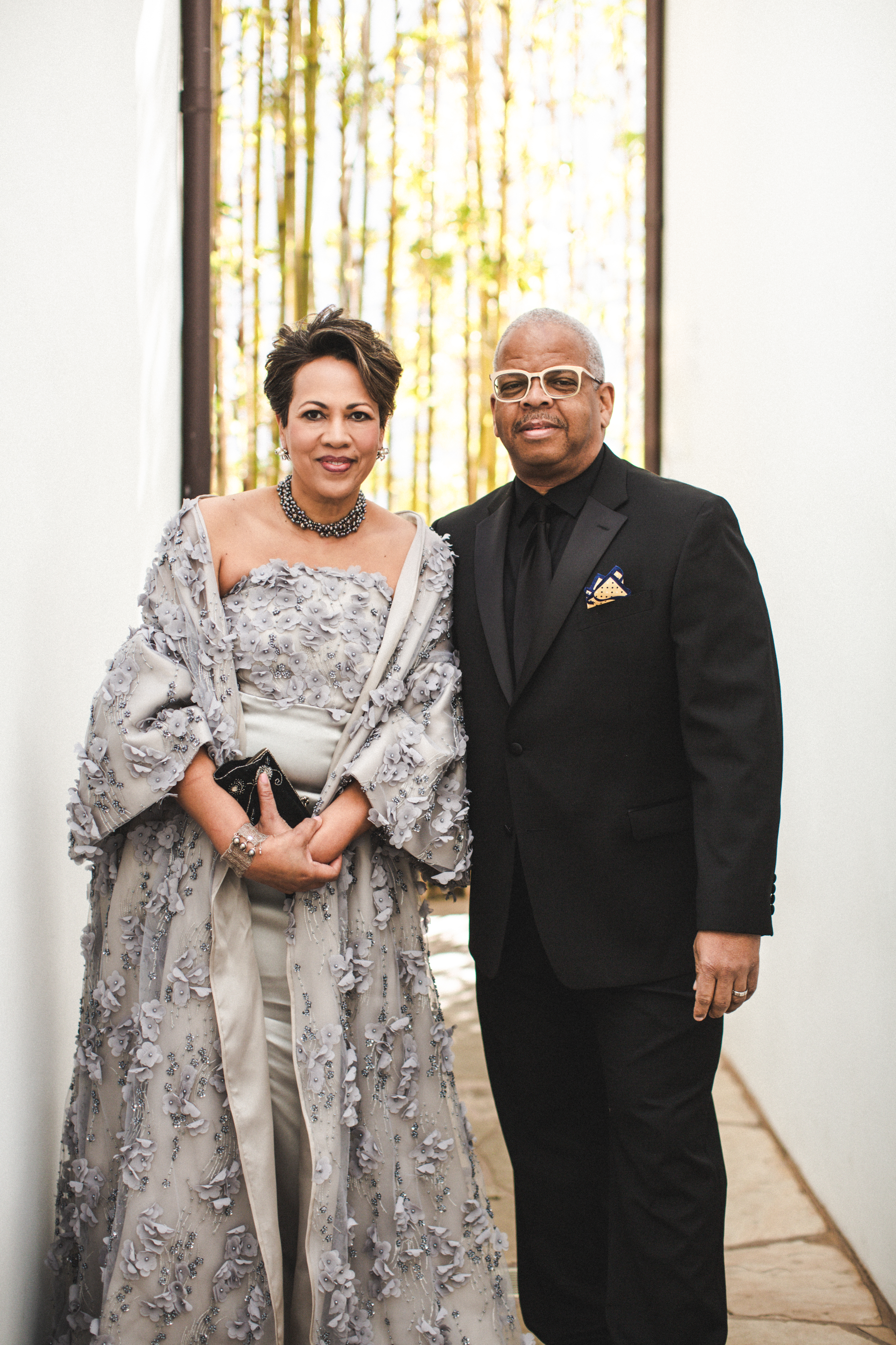 Composer Terence Blanchard and his wife, Robin Burgess, attend the 91st Academy Awards in Los Angeles on February 24th, 2019 where Blanchard was nominated for Best Original Score for his work on BlackKklansman.